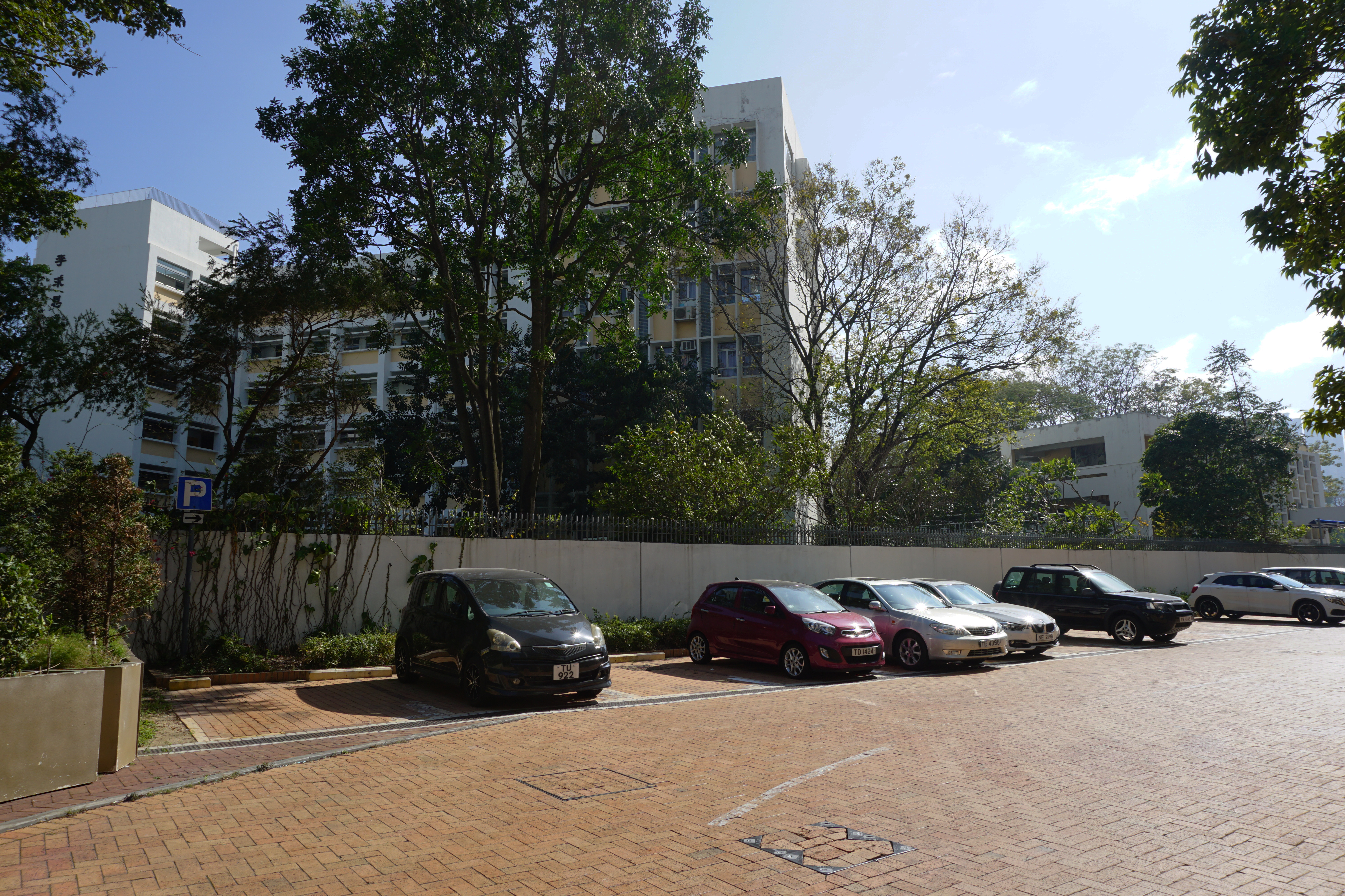 Lee Kau Yan Memorial School in San Pong Kong, Hong Kong.